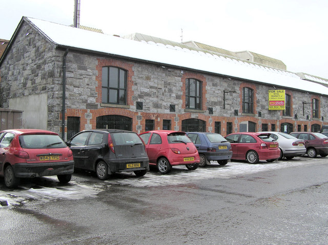 Railway Goods Building, Omagh. This former flax store is only one of a couple of stone built buildings that remain from the days of the railways in Omagh. The depot, off the Dublin Road, was on a separate branch from the Railway Station which has long been demolished, located at the site of the Homebase Store off the Dromore Road traffic lights junction. This building was used an off-licence by the adjoining Dunnes supermarket, but it was not popular move to separate it from the main store, so it is now on the market.